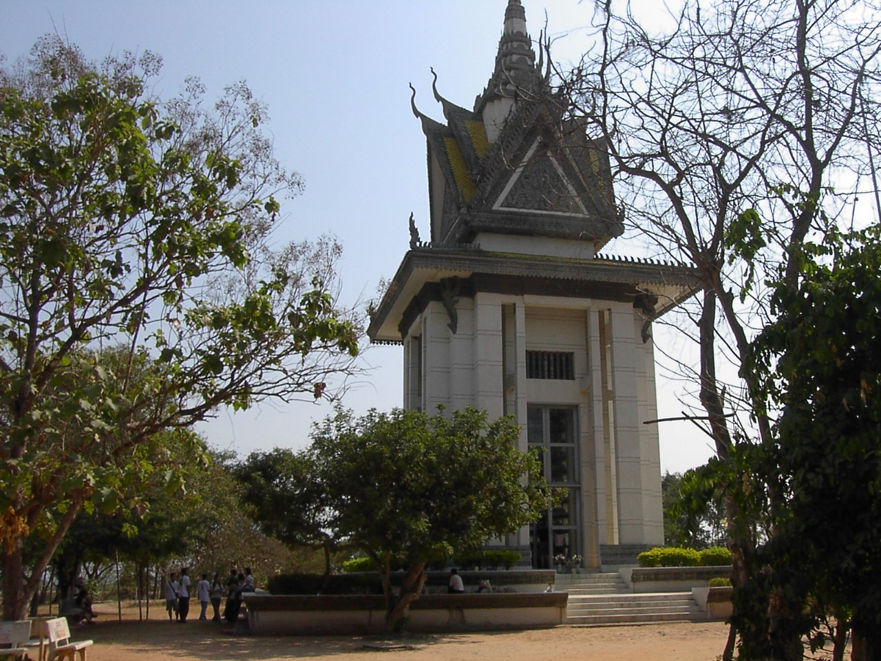 Photographed and uploaded to English Wikipedia by Adam Carr